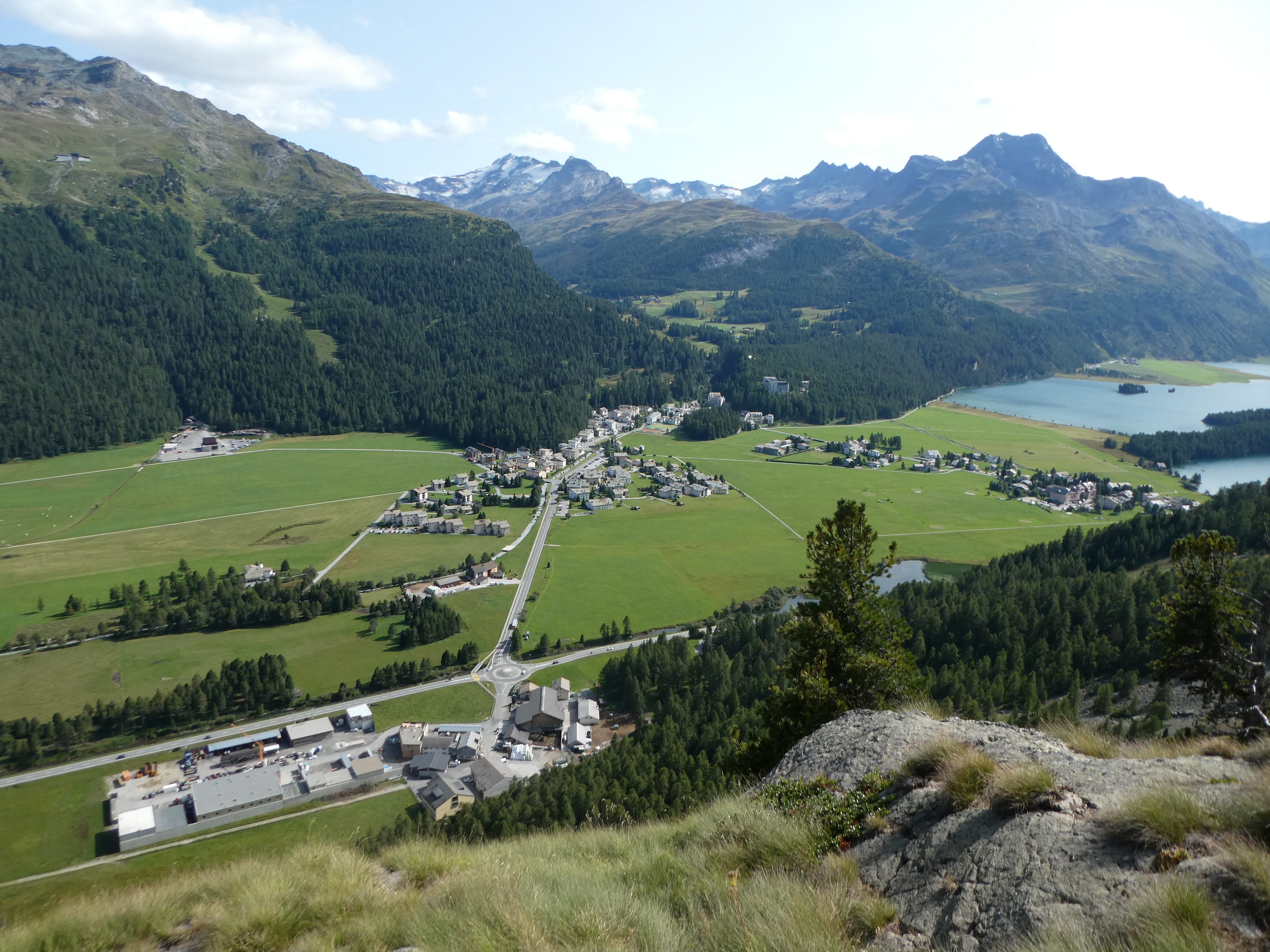 Sils/Segl Maria and Sils/Segl Baselgia, picture taken from the hiking path to Lej da la Tscheppa (Sils im Engadin/Segl, Grison, Switzerland)